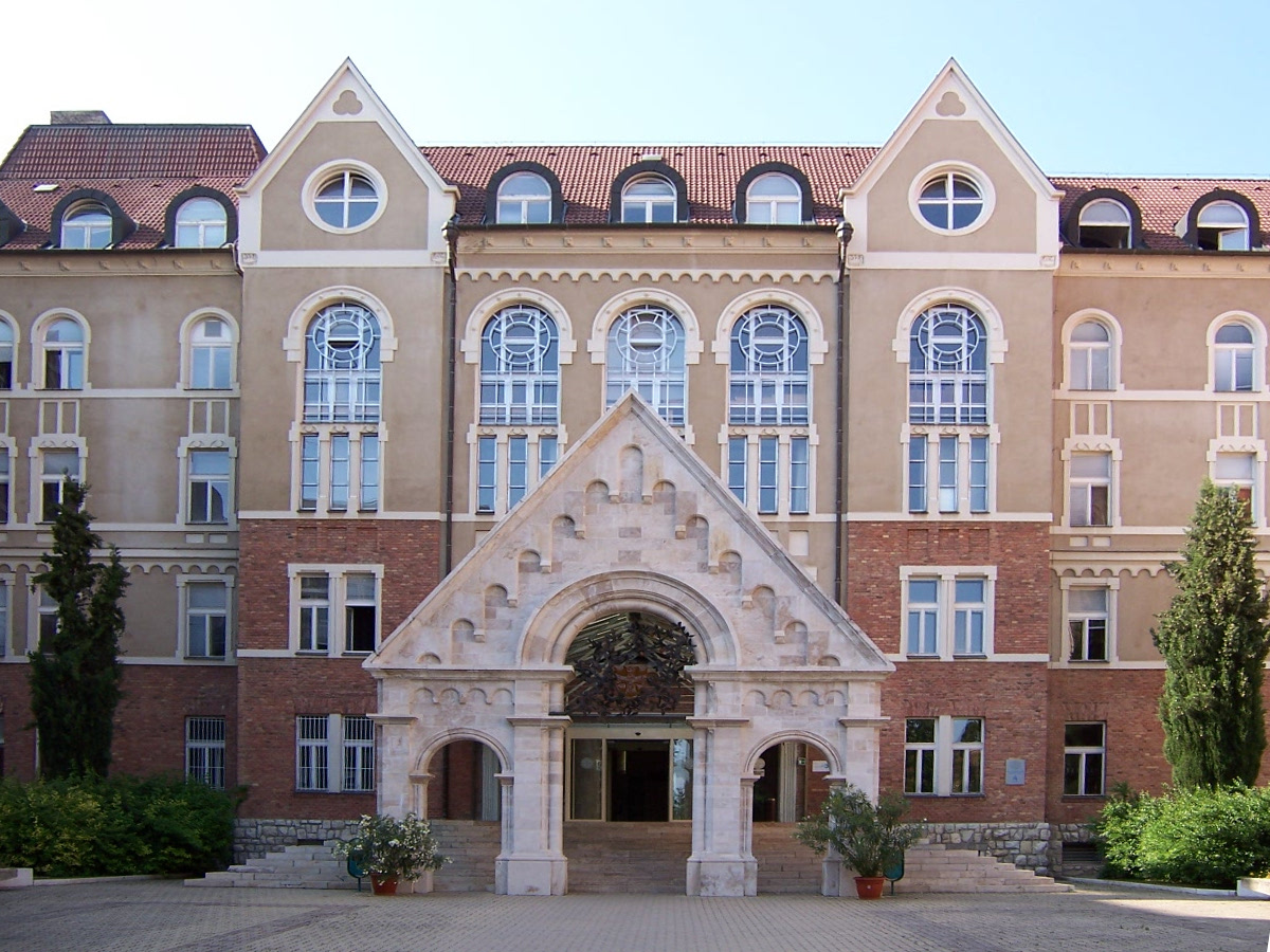 Hungary, Pécs. Camera: KODAK-DX7440